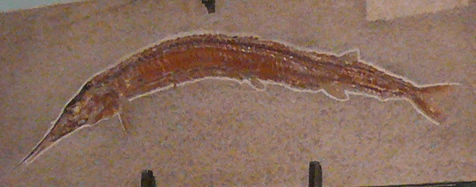 Cropped image of taxon in file name